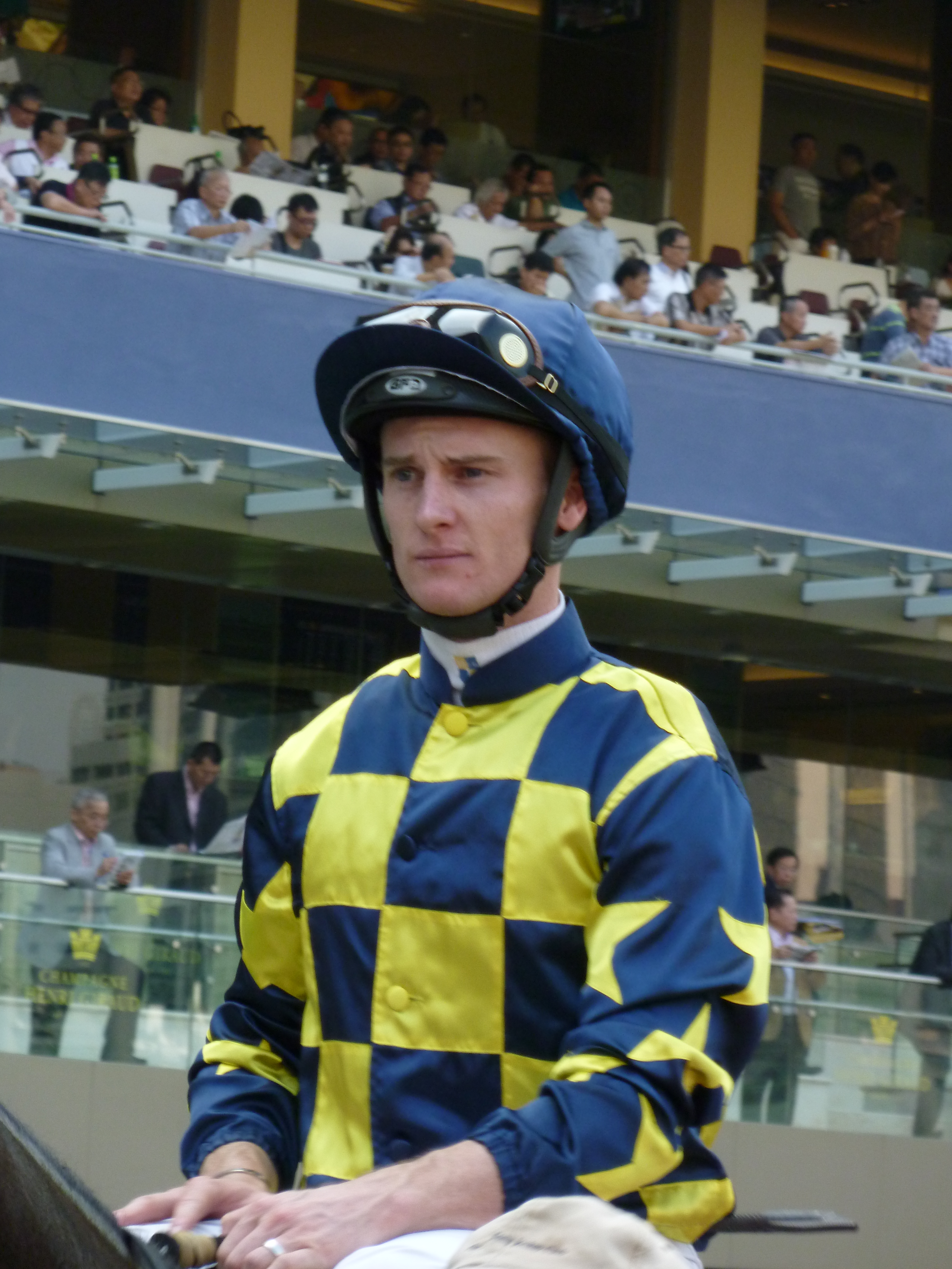 Zac Purton (20 Oct 2013, Happy Valley Racecourse) 中文（香港）: 潘頓 (20 Oct 2013, 跑馬地日馬)